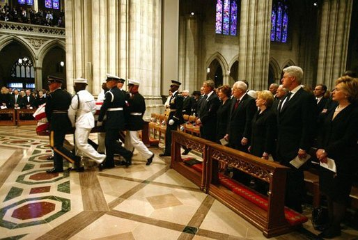 President George W. Bush, his wife, Laura, Vice-President Richard Cheney, his wife, Lynne, former president Bill Clinton and his wife, Hillary, senator from New York, and (not pictured) the other living former presidents and their wives, (George H.W. and Barbara Bush, Gerald and Betty Ford, and Jimmy and Rosalynn Carter), watch the casket of former president Ronald Reagan carried into the cathedral. Photo courtesy White House